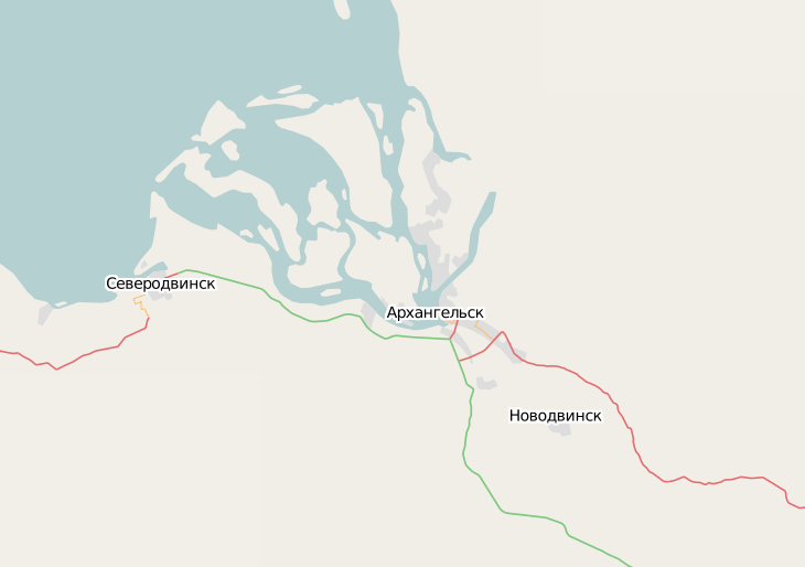 This map may be incomplete, and may contain errors. Don't rely solely on it for navigation.